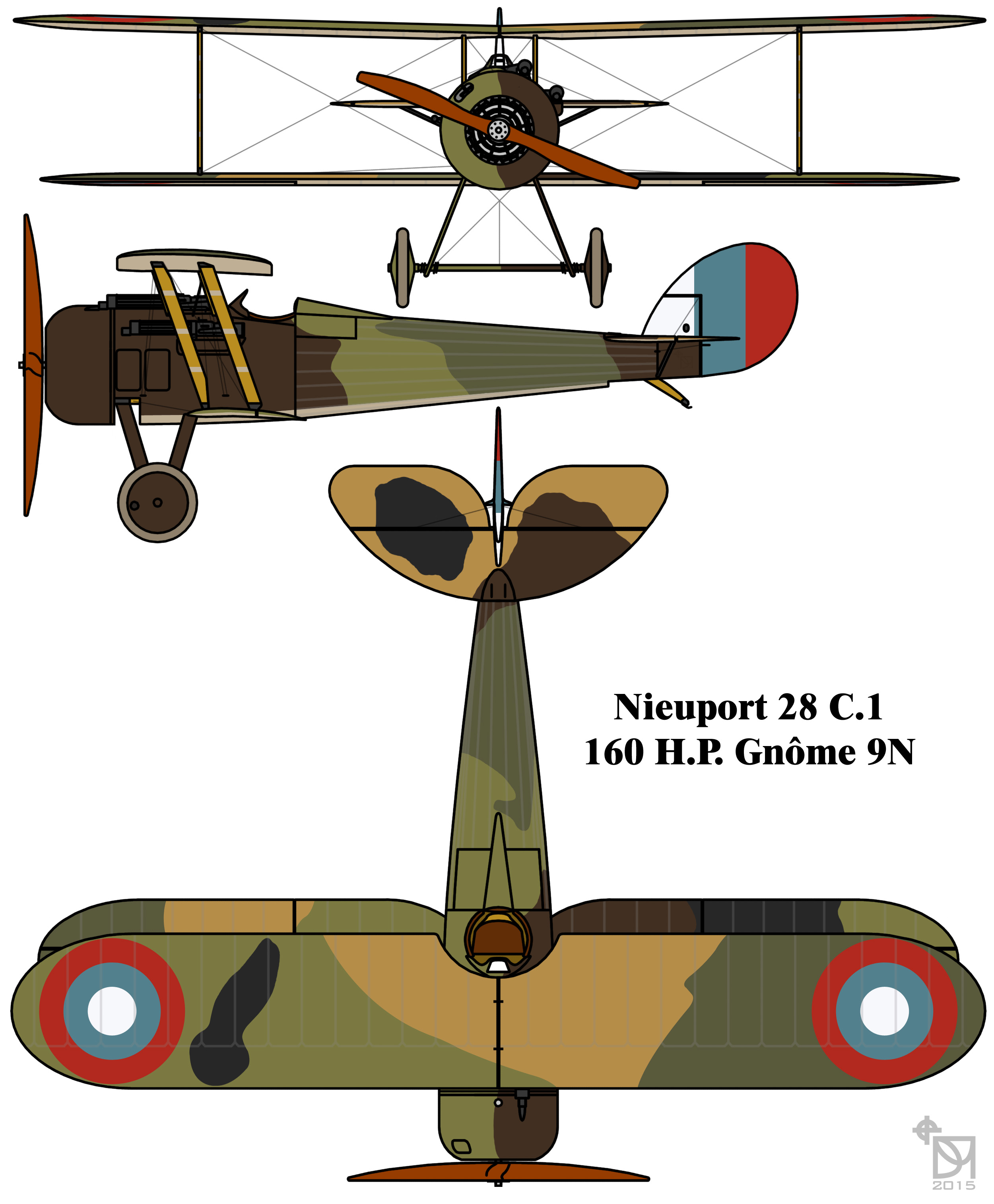 Nieuport 28 C.1 French First World War single seat fighter colourized drawing